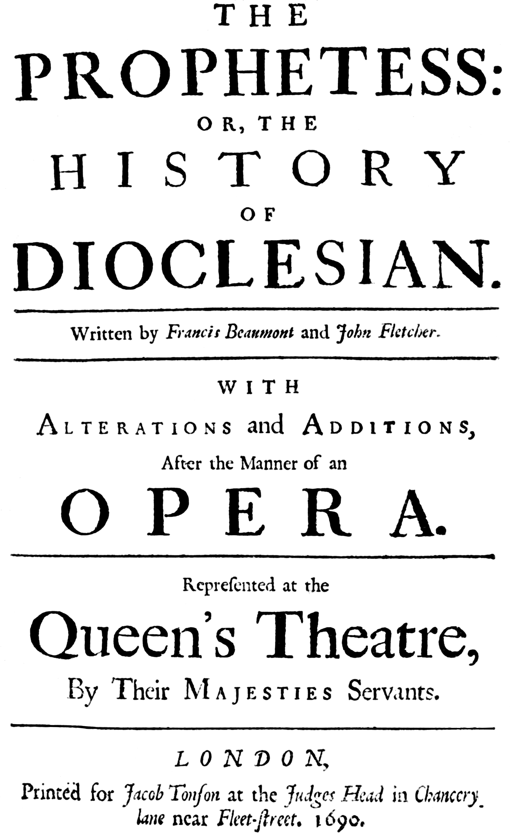 Purcell - The Prophetess - title page of the libretto - London 1690